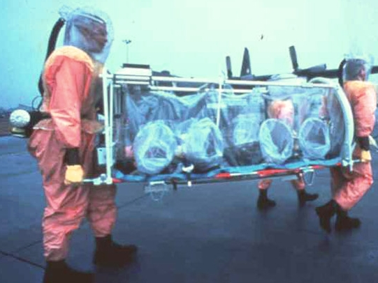 Description from U.S. Army Medical Research Institute of Infectious Diseases: Aeromedical isolation team members in field-protective suits equipped with battery-powered HEPA-filtered respirators transporting the stretcher isolator, a light-weight unit designed for initial patient retrieval. The team trains on several types of military aircraft, including the C-130 transport shown in the background.